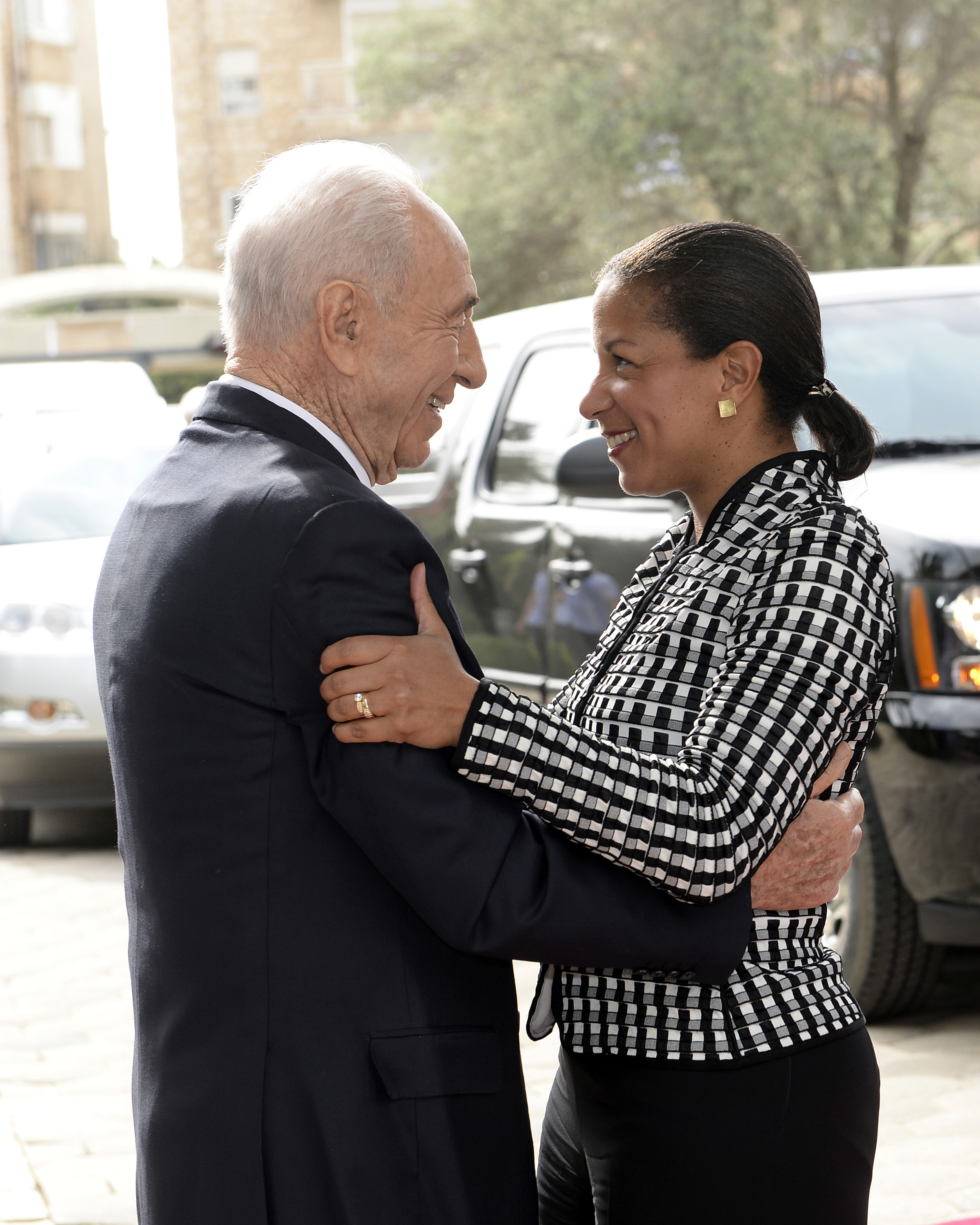 Israeli President Shimon Peres welcomes Ambassador Susan Rice, the President’s National Security Advisor, before their meeting in Jerusalem on May 7, 2014. [State Department photo/ Public Domain]